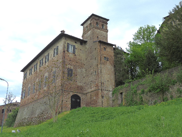 Castle Sarmato rear view